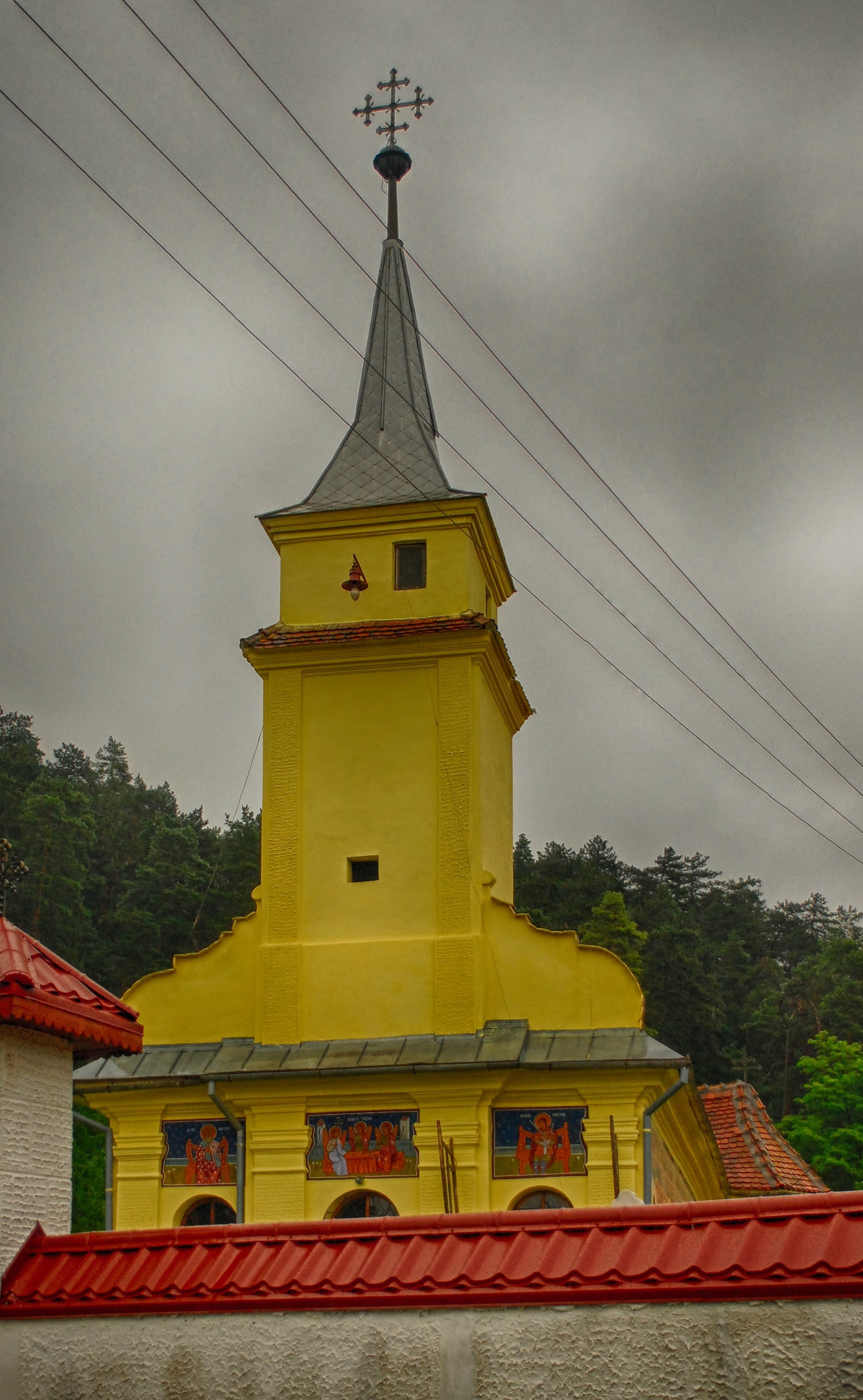 Saint Demetrius' church in Teliu, Brașov County, RomaniaRomână: Biserica „Sfântul Dimitrie” din Teliu, județul Brașov, România